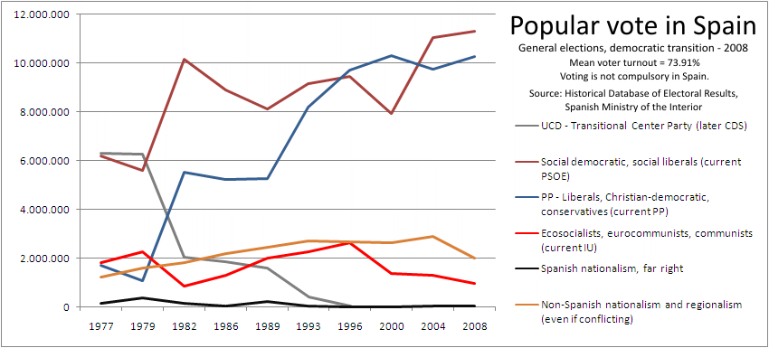 Evolution of popular vote in the Spanish General Elections from the democratic transition until 2008. Source of data: Historical Database of Electoral Results, Spanish Ministry of Interior.